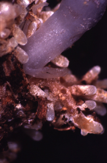 Base of Monotropa uniflora inflorescence and myco-heterotrophic roots of M. uniflora and Russula brevipes. From Washington County, Vermont.